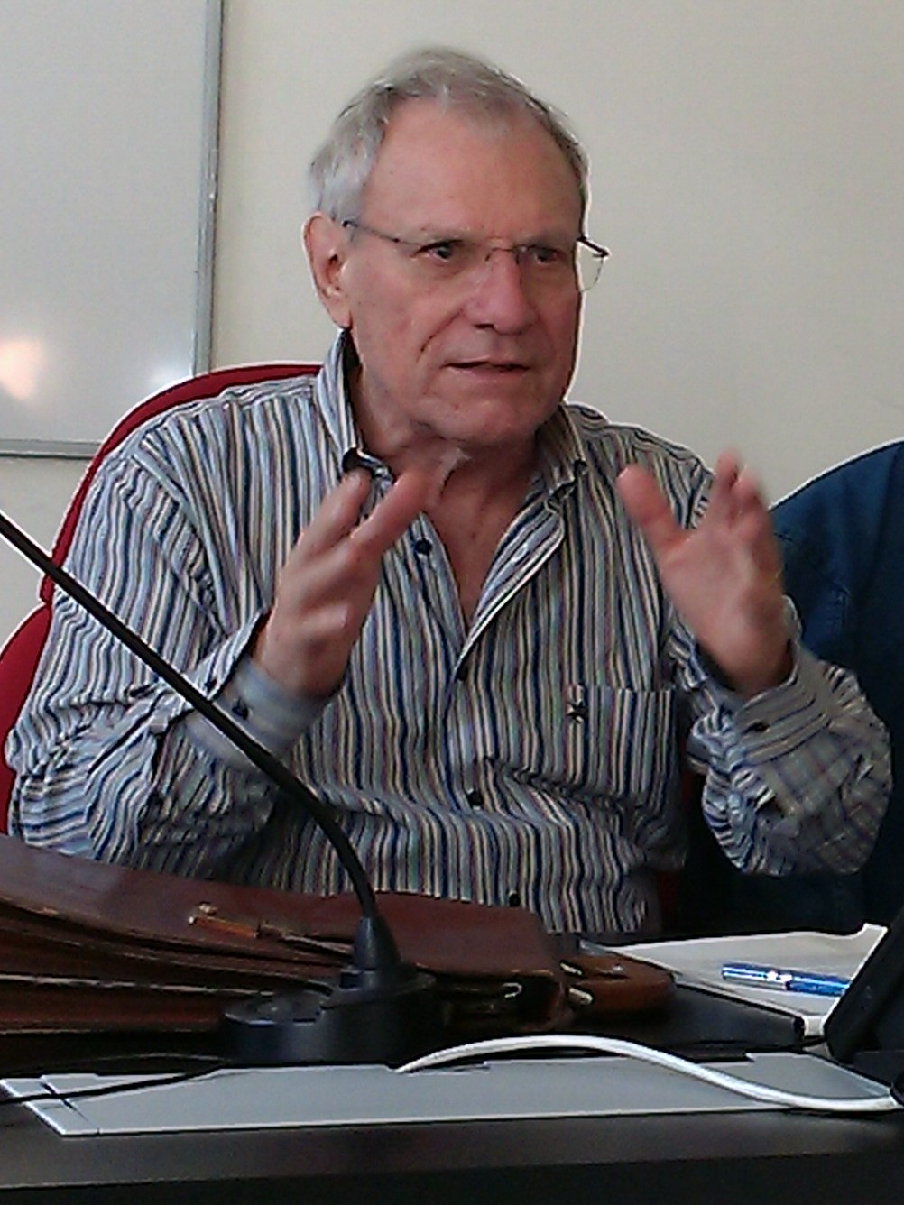 Philippe Schmitter speaking at the University of Trento, 11 november 2015